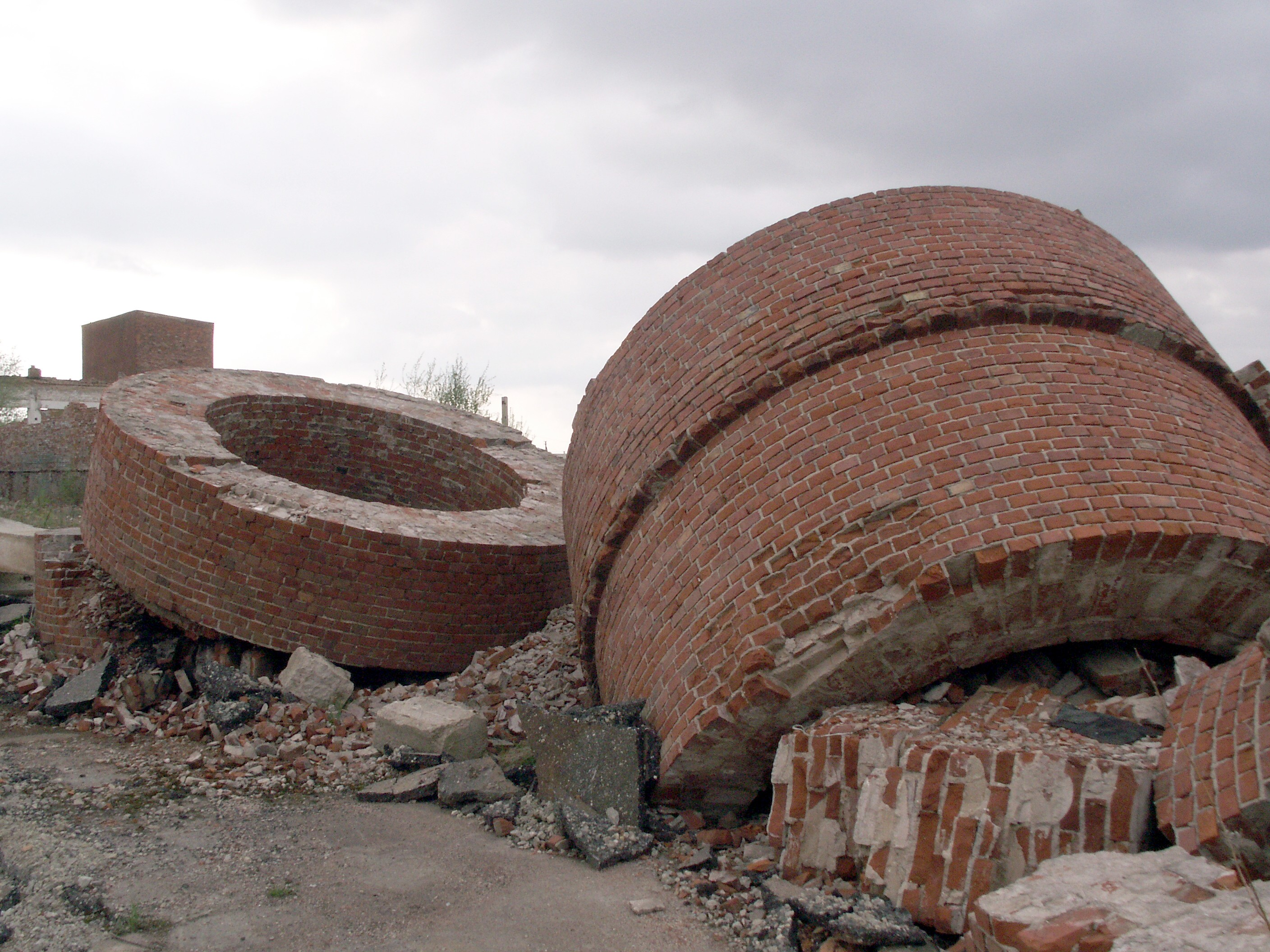 Former brickyard in Kraštai, Lithuania